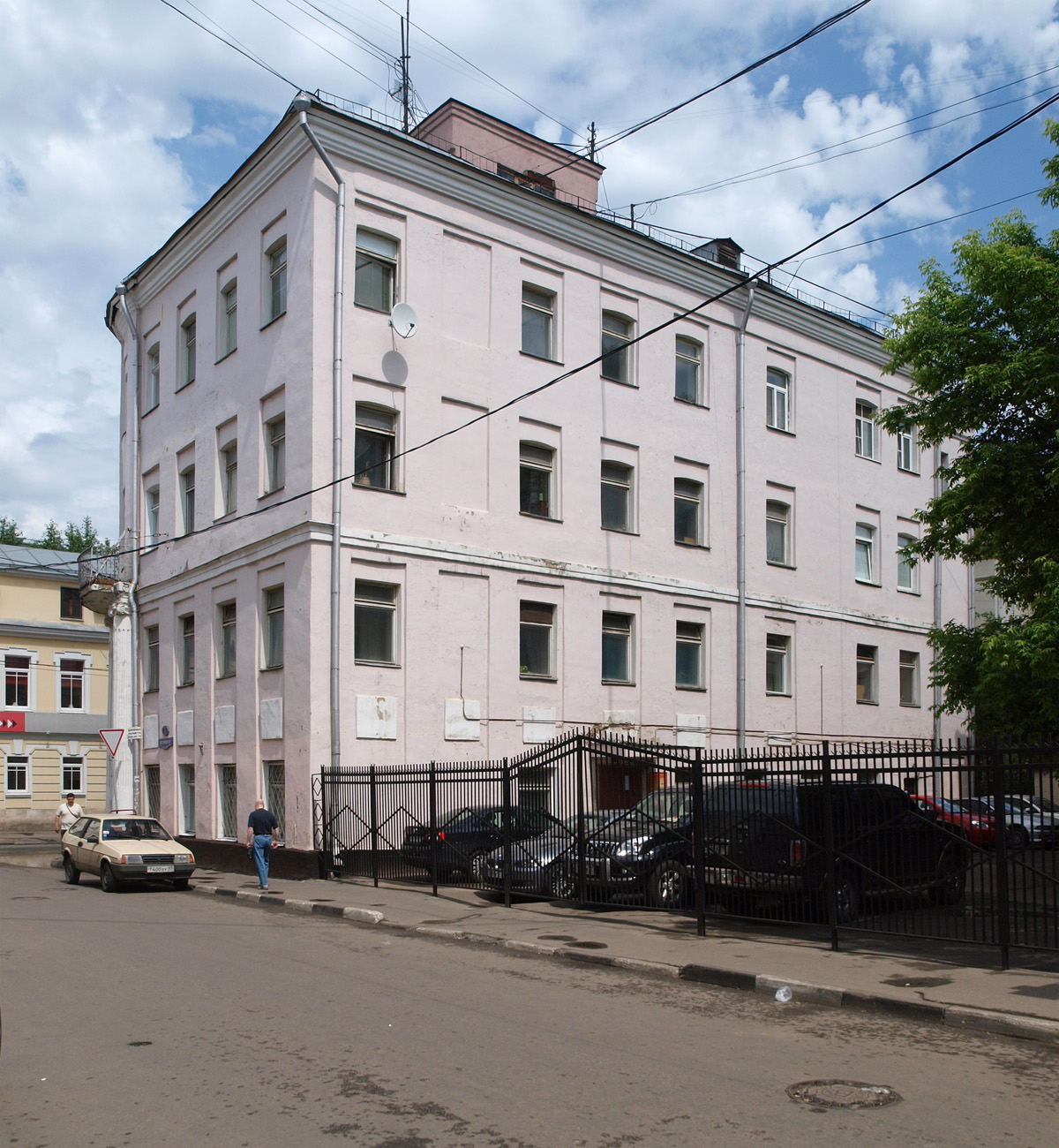 Corner of Pyatnitsky Lane (right) and Bolsoy Ovchinnikovsky Lane, Moscow - view from Pyatnistsky Lane. It's 18th century (in its original 2-storey form, later built up).